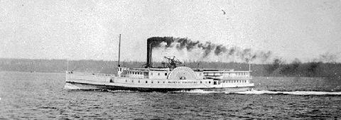 Sidewheel steamship North Pacific circa 1870.